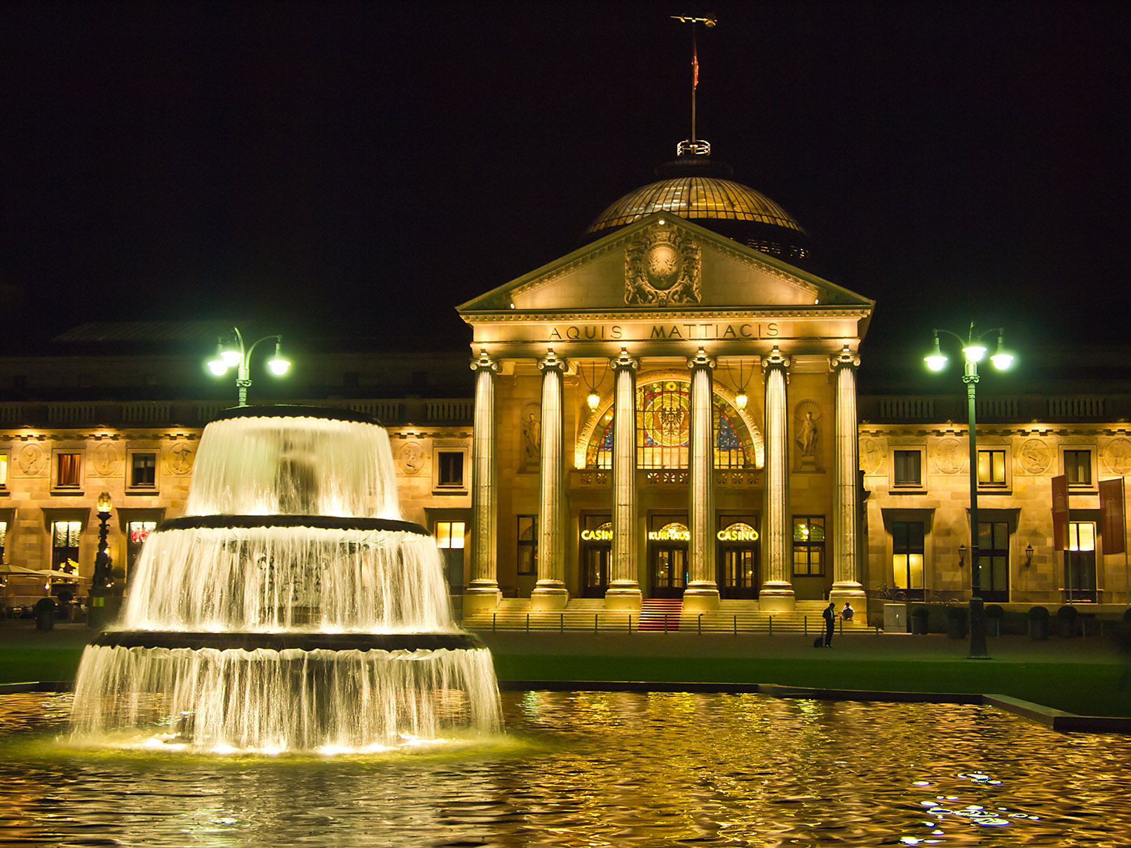 Kurhaus Wiesbaden (spa house) with one Fountain of the Bowling Green in the evening, Germany